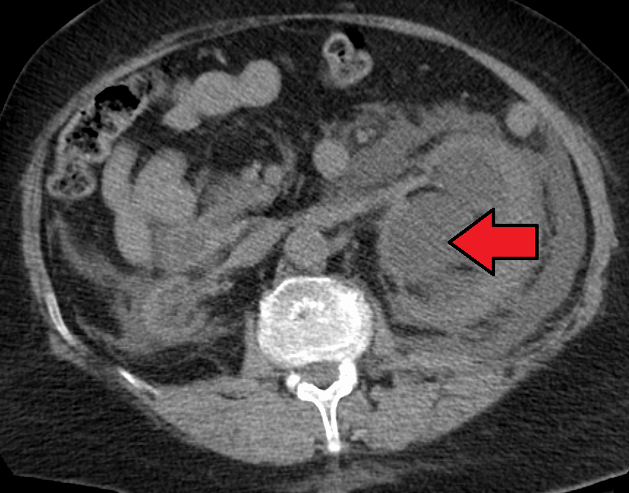 Left sided hydronephrosis in a person with a single kidney. Stent is also present.